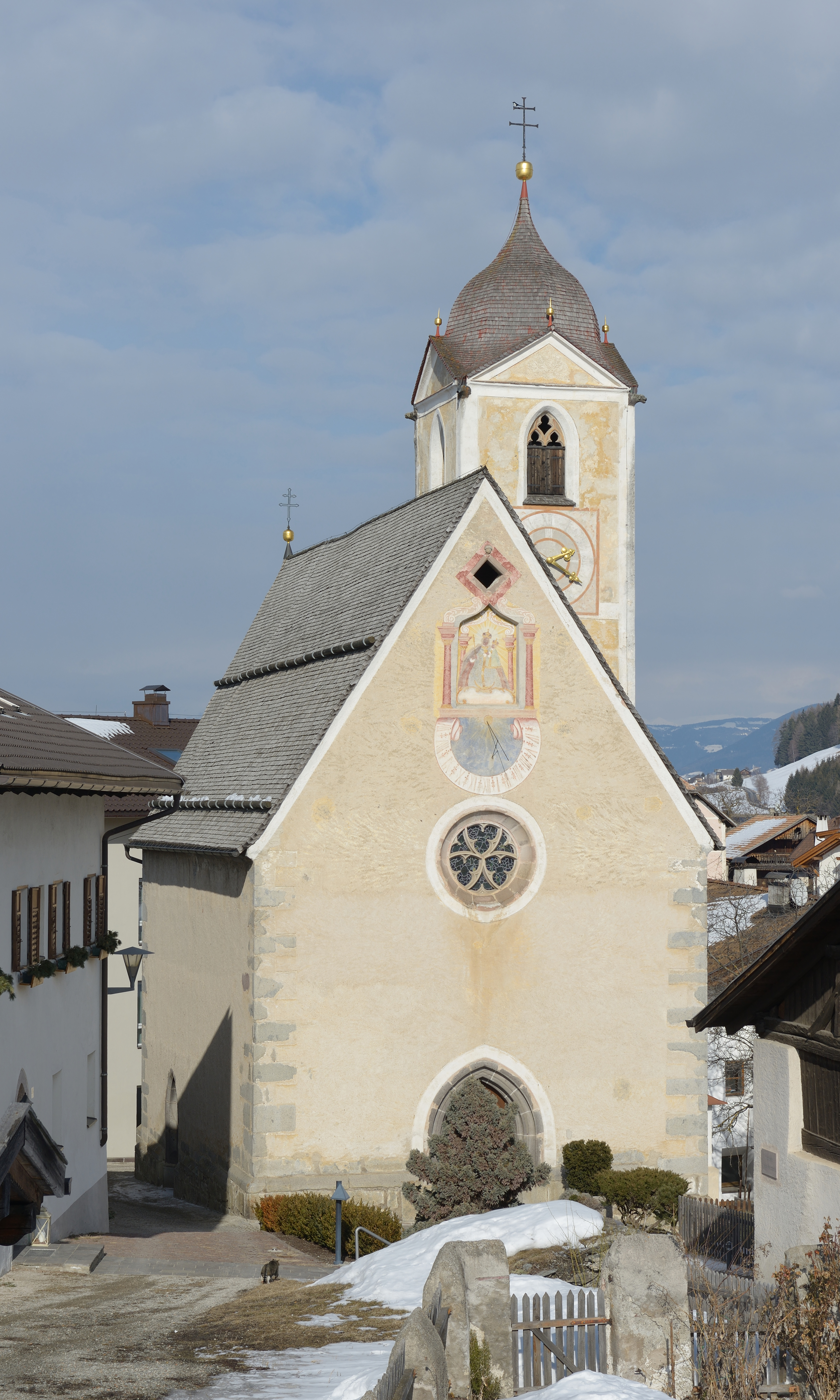 Fassade of the "Unsere Liebe Frau" church in Lajen 17th century